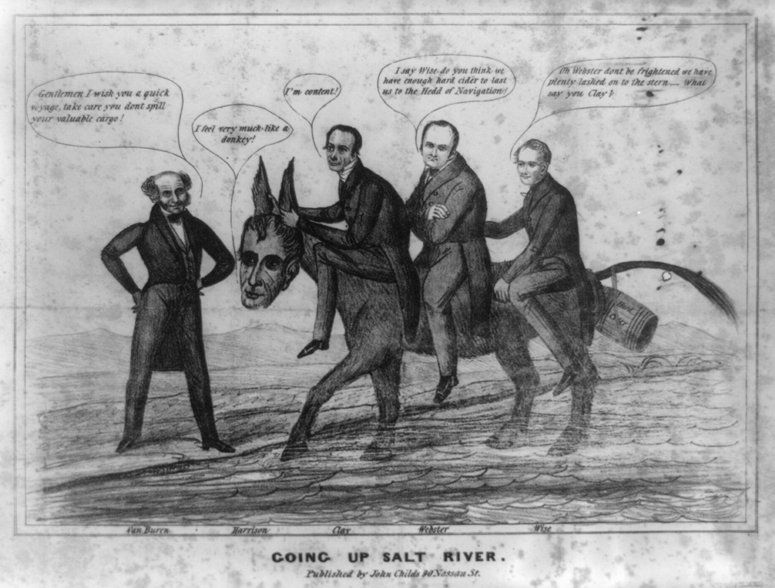 Title: Going up Salt River Abstract/medium: 1 print : lithograph on wove paper ; 30.1 x 37.2 cm. (image)